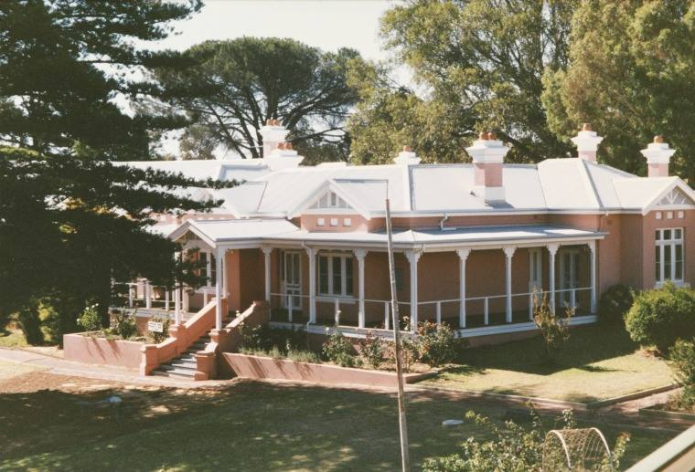 Front view of Undercliffe House/Hospital, Greenmount WA Australia 1994